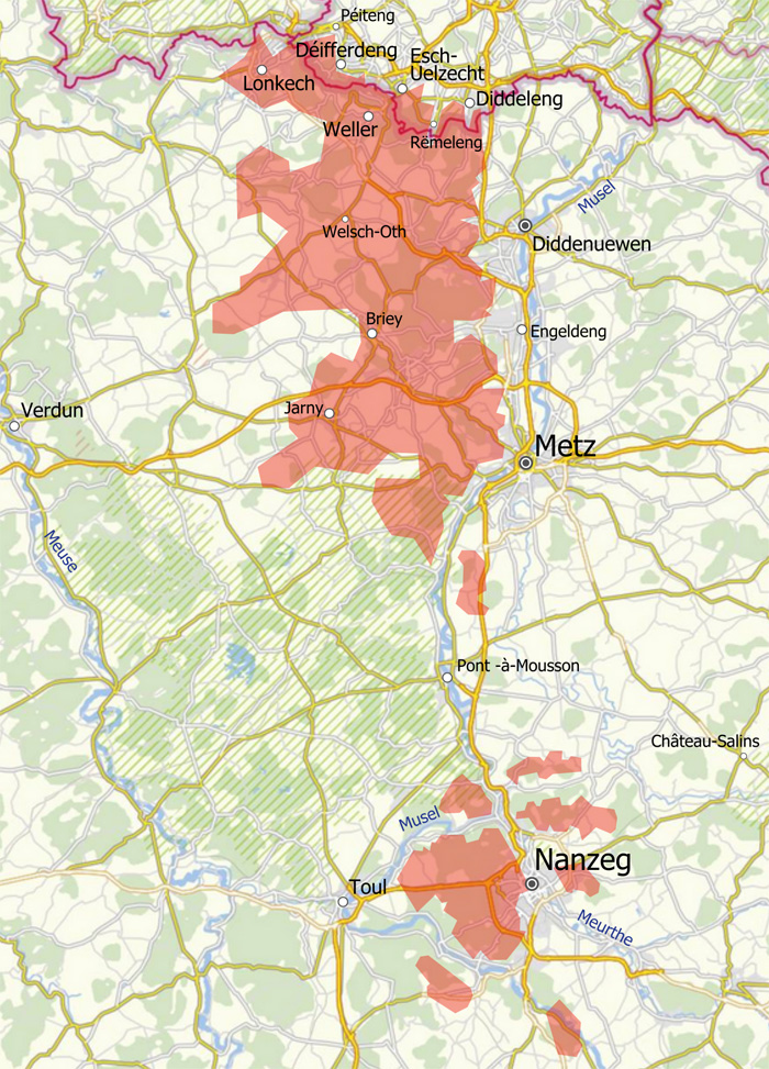 Map of the iron ore deposits in Luxembourg and Lorraine (France).